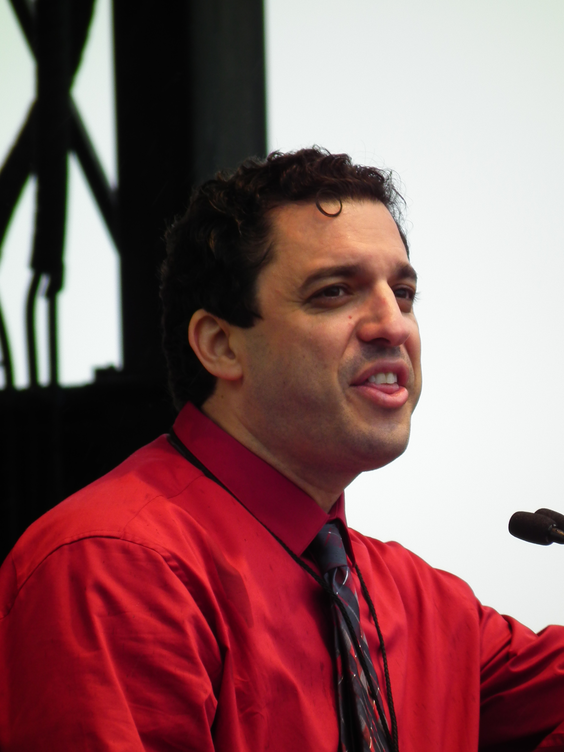 David Silverman President of American Atheists.